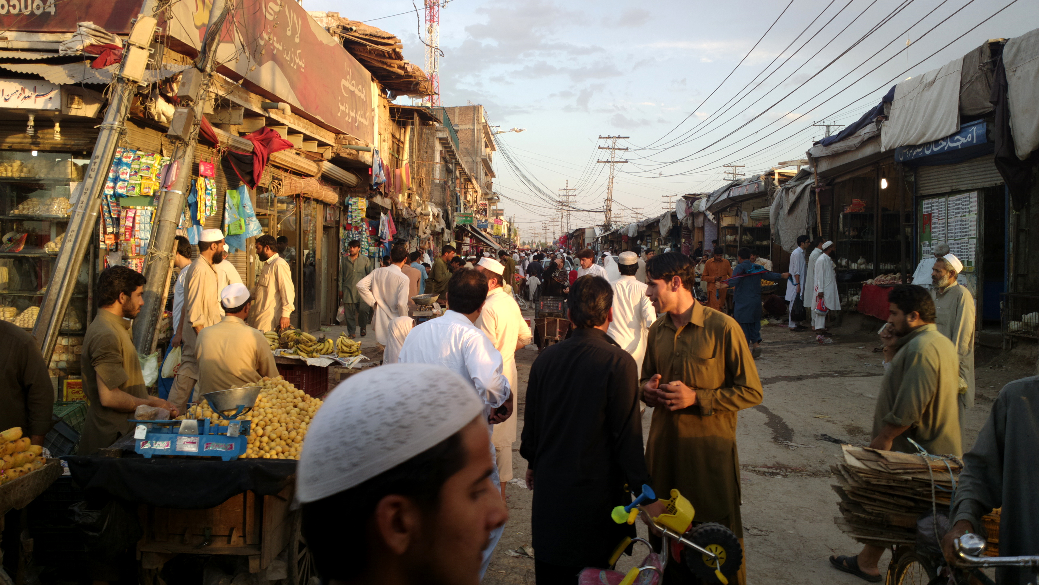 Board Bazaar Peshawar